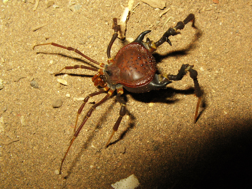 A harvestman (Pachyloidellus sp.) in Concón, Valparaíso Region, Chile